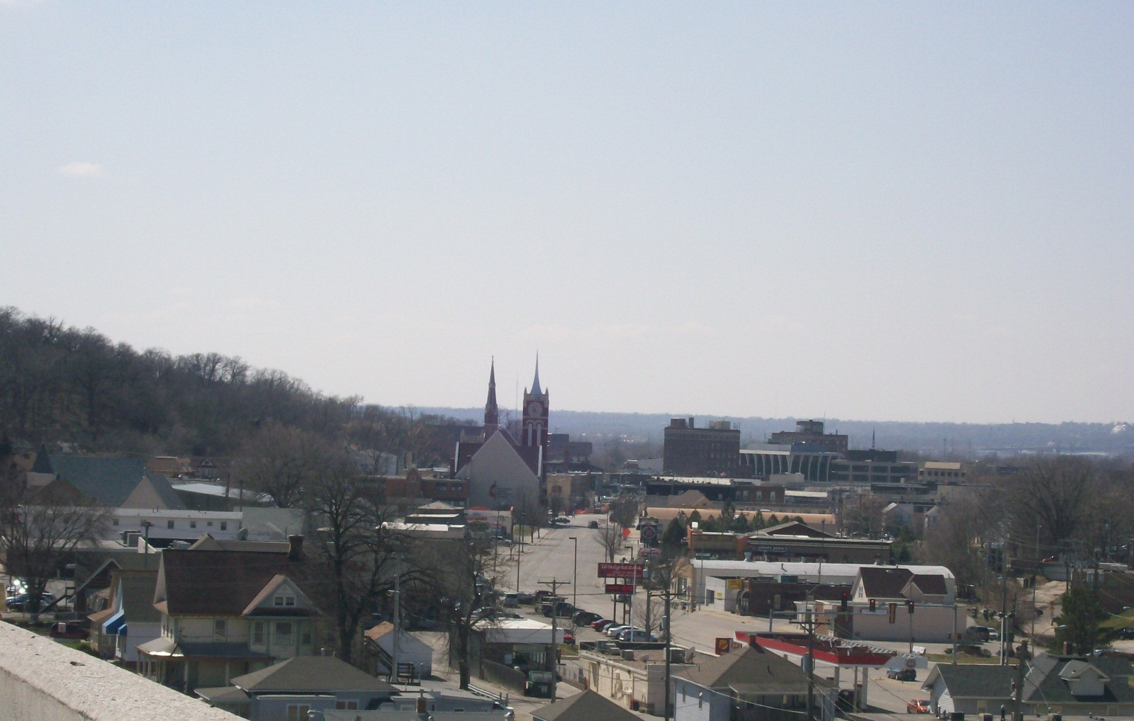 View looking west down East Broadway towards downtown Council Bluffs, IA